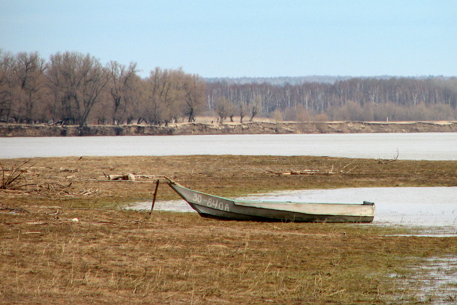 Boats in Butakovo. Irtysh River.